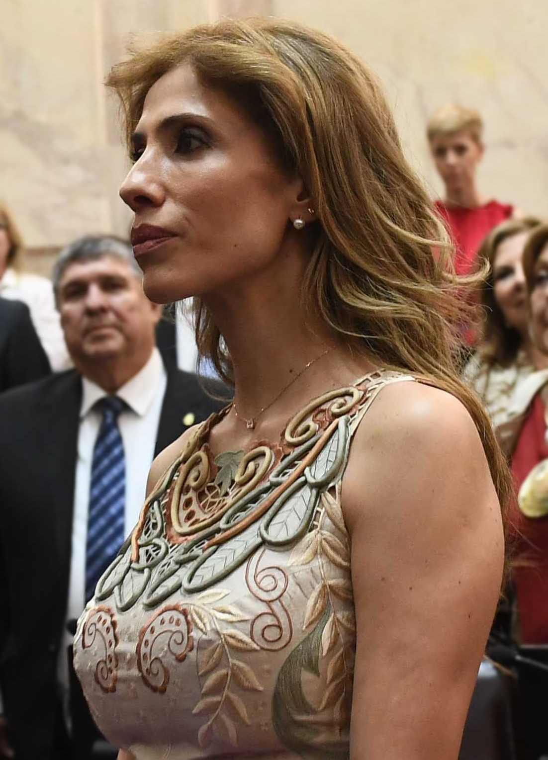 Claudia Ledesma Abdala swearing as Provisional President of Argentine Senate.